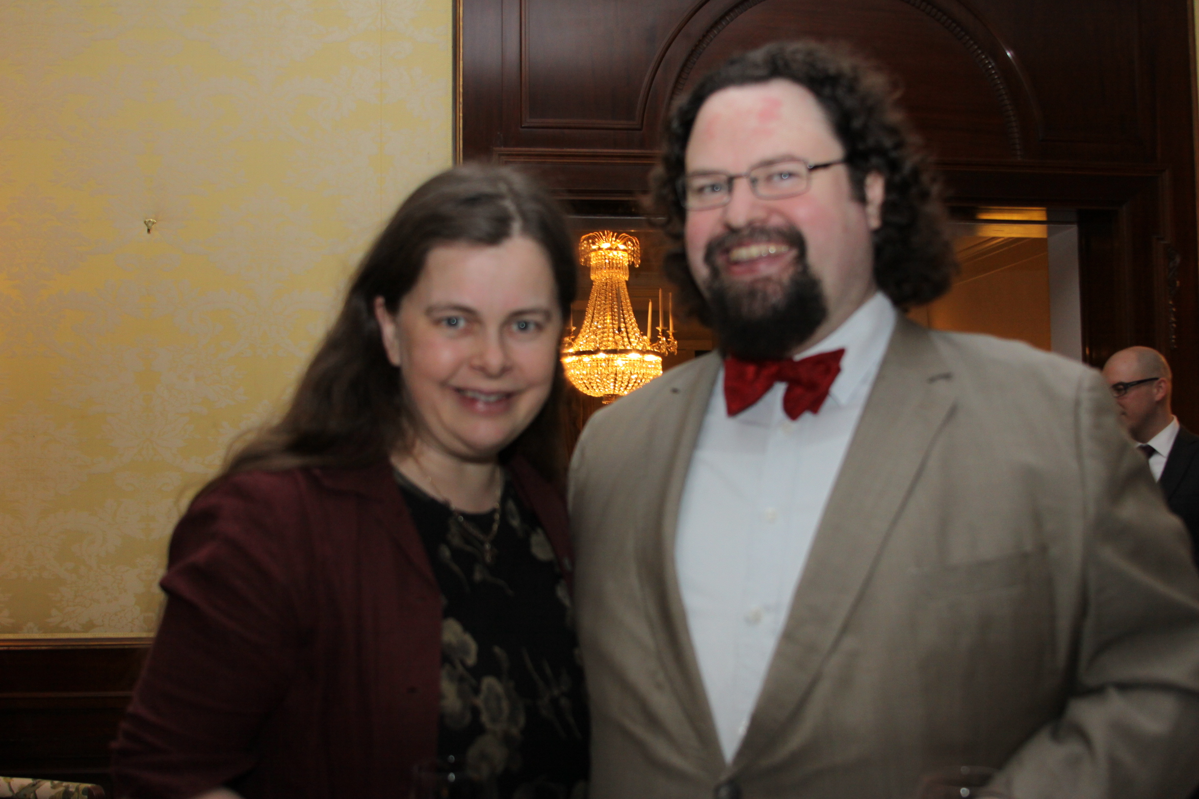 Gunilla Kinn and Edward Blom